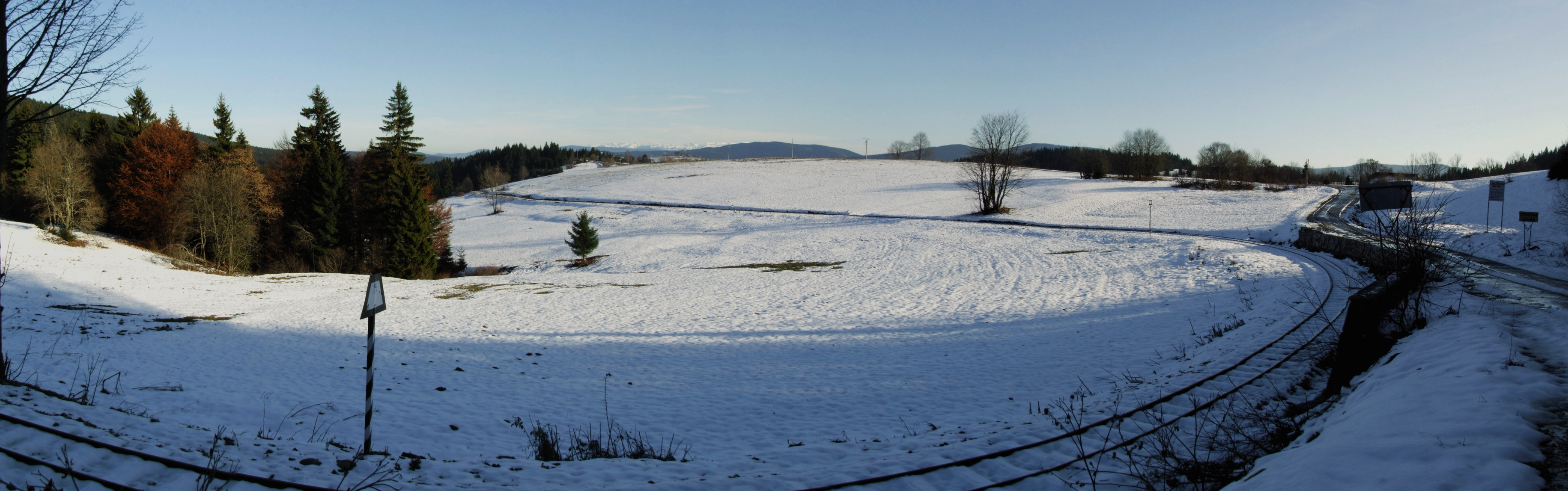 Oravské Beskydy and Tatra Mountains - view from Oravská Lesná, Slovakia